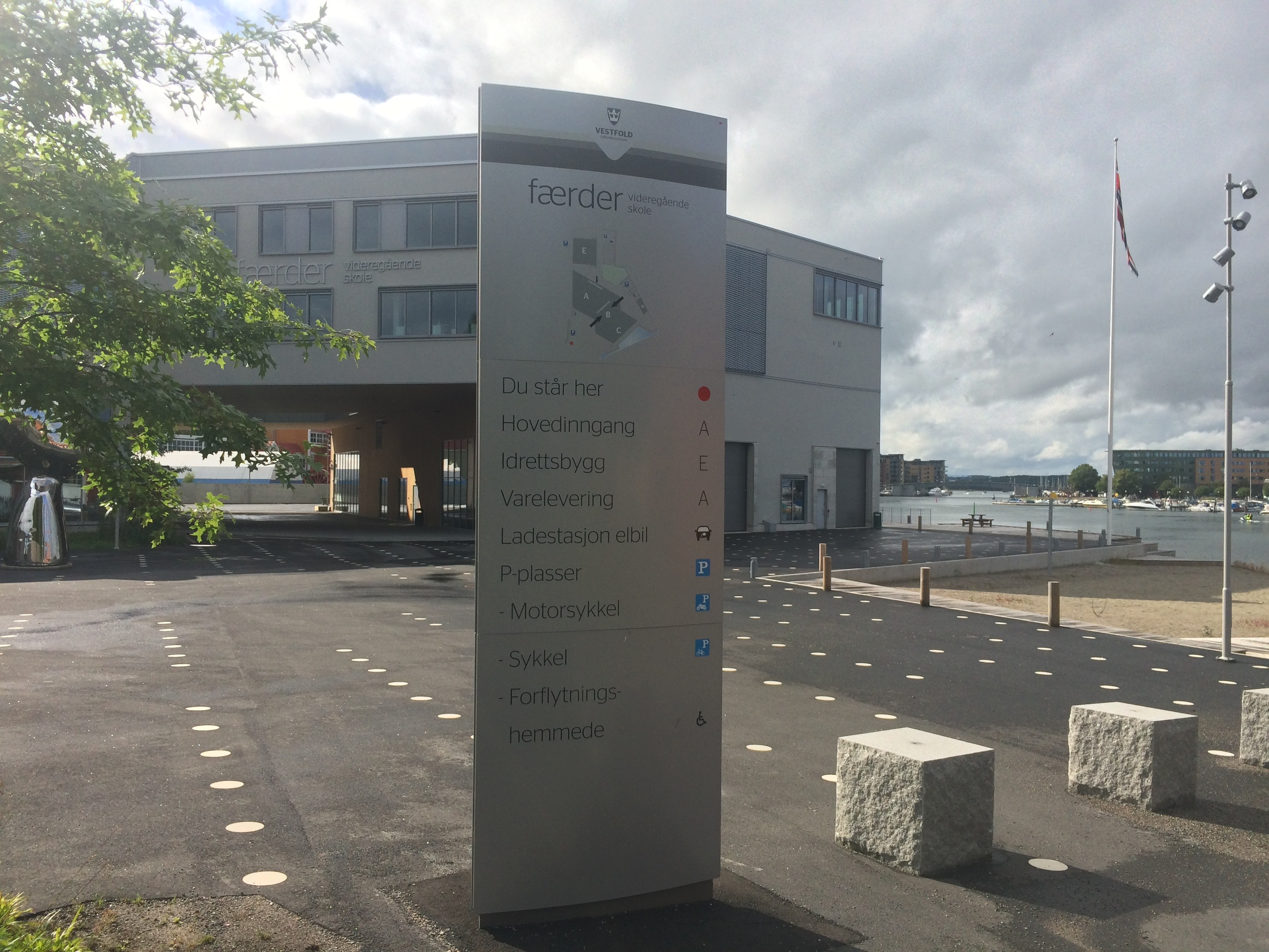 Faerder videregaaende skole Kaldnes Toensberg 2015-07-21